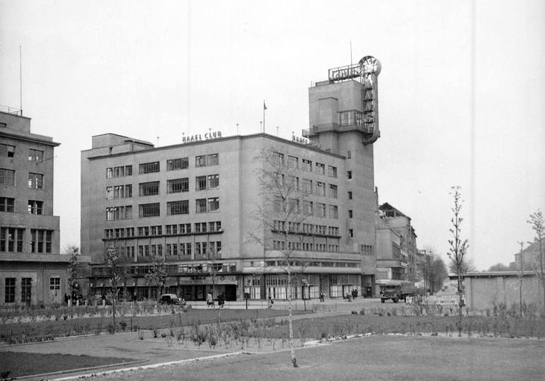 Facilities for British service personnel in Berlin during the Blockade, 1949. The NAAFI Club, situated on the corner of Reichskanzlerplatz (later Theodor Heuss Platz).